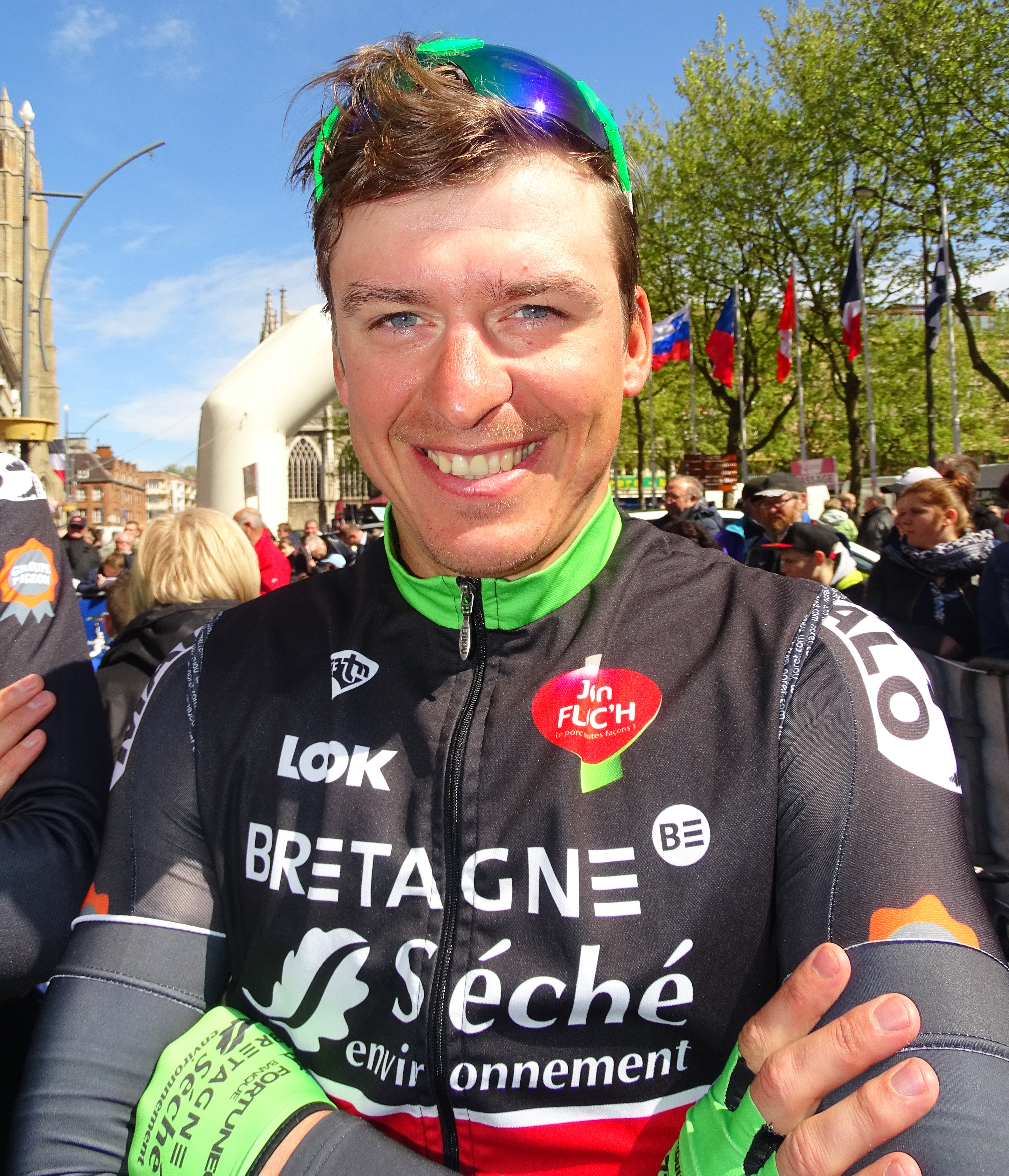 ... Depicted person: Yauheni Hutarovich